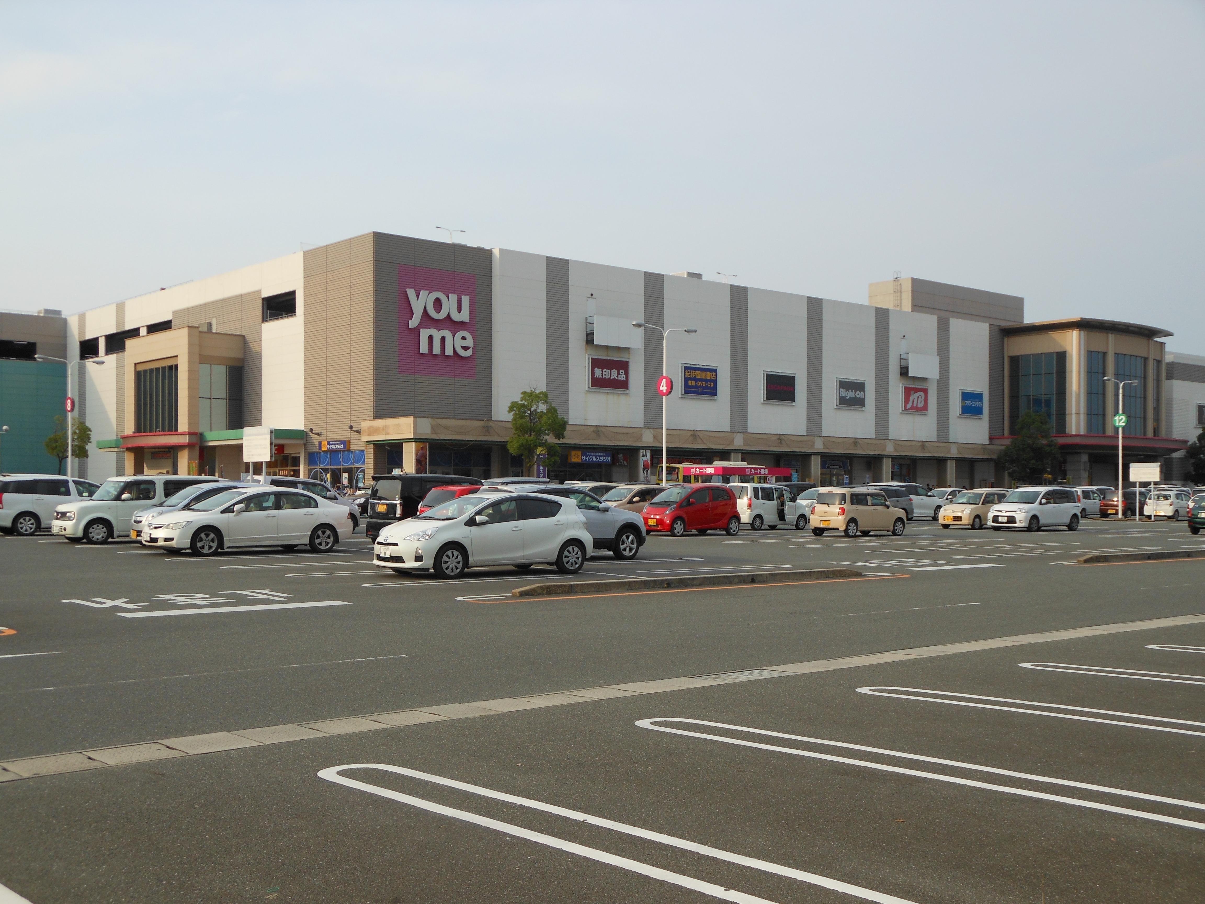 You me town Saga, shopping mall in Saga.